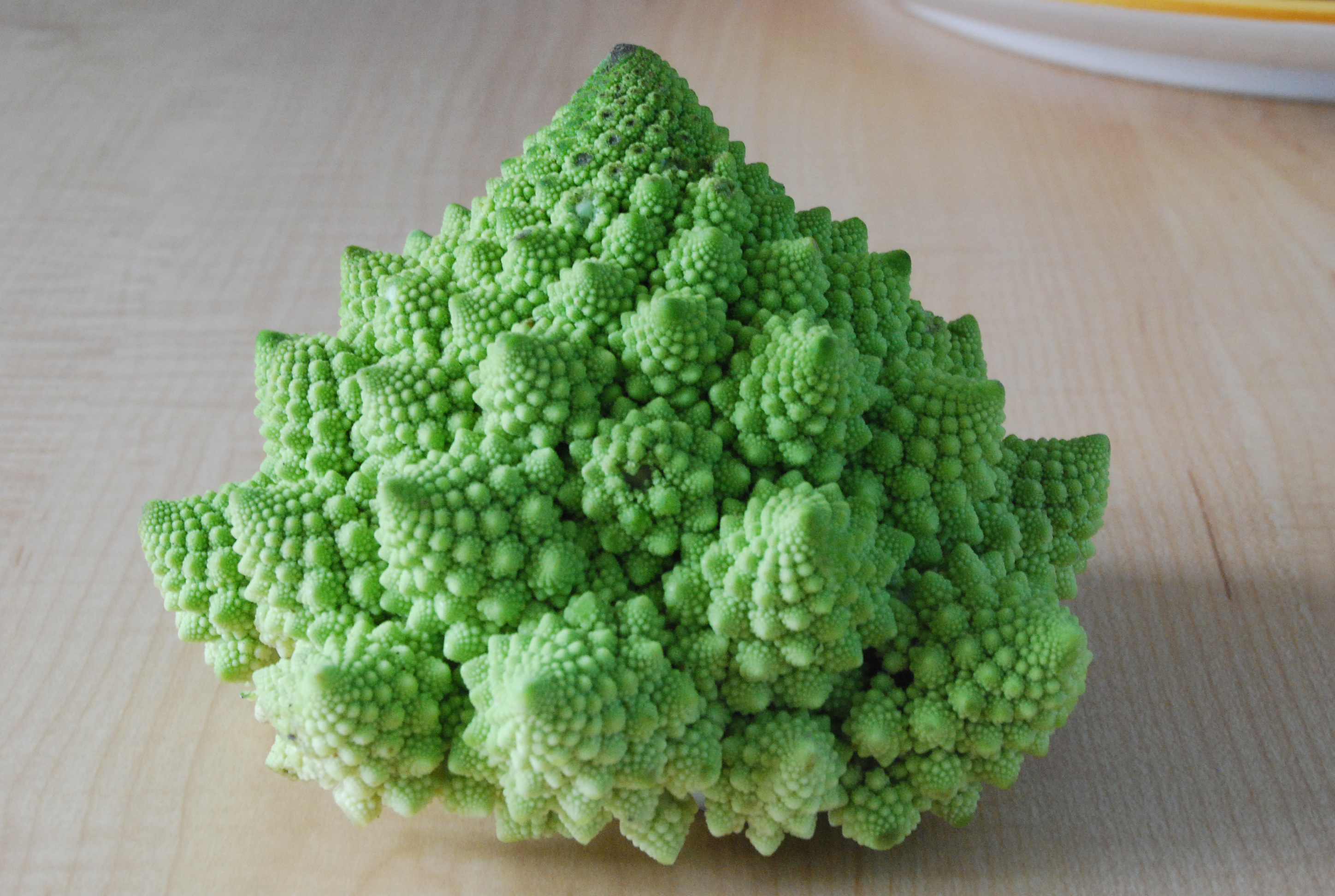 Close-up of a remarkable romanesco calibrese (part of the cauliflower family) showing its fractal properties. We later ate it - it was delicious!